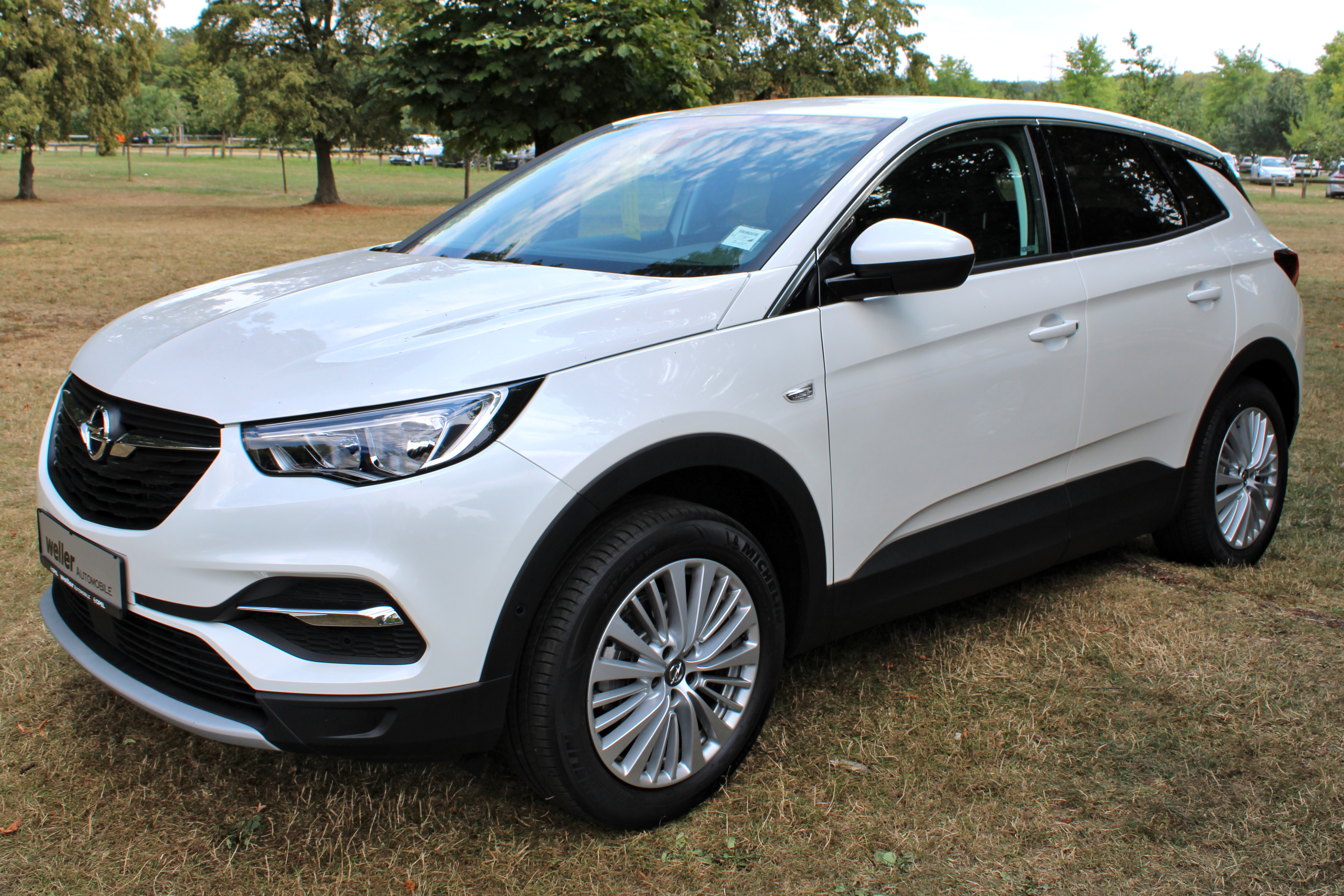 Opel Grandland X at schloss Monrepos